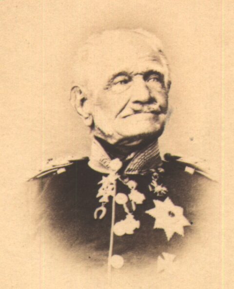 Friedrich Graf von Wrangel